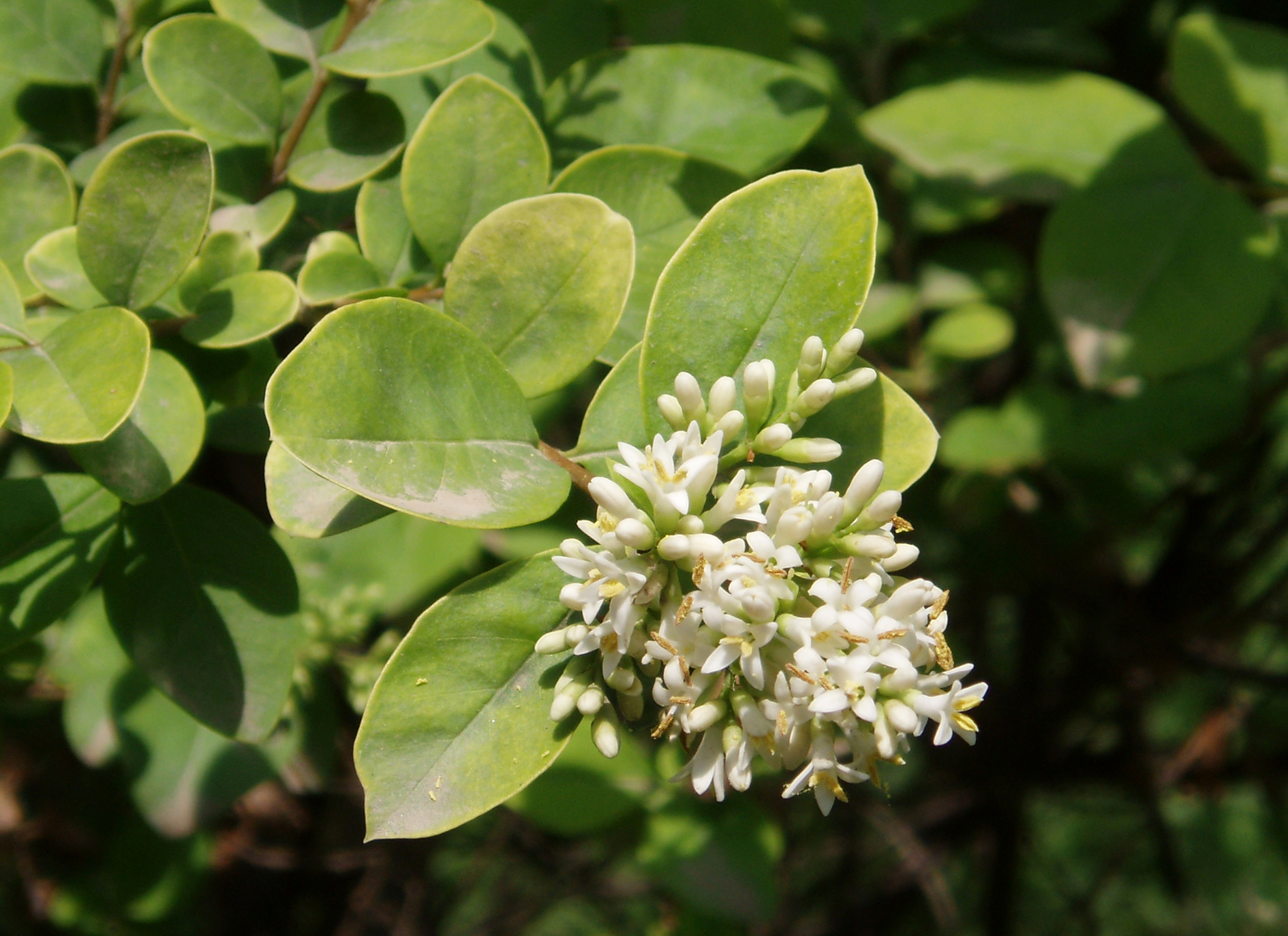 Vicary golden privet flowers